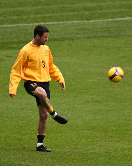 Chris Coyne after a training session at ANZ Stadium the day before a World Cup Qualifying game against Uzbekistan.